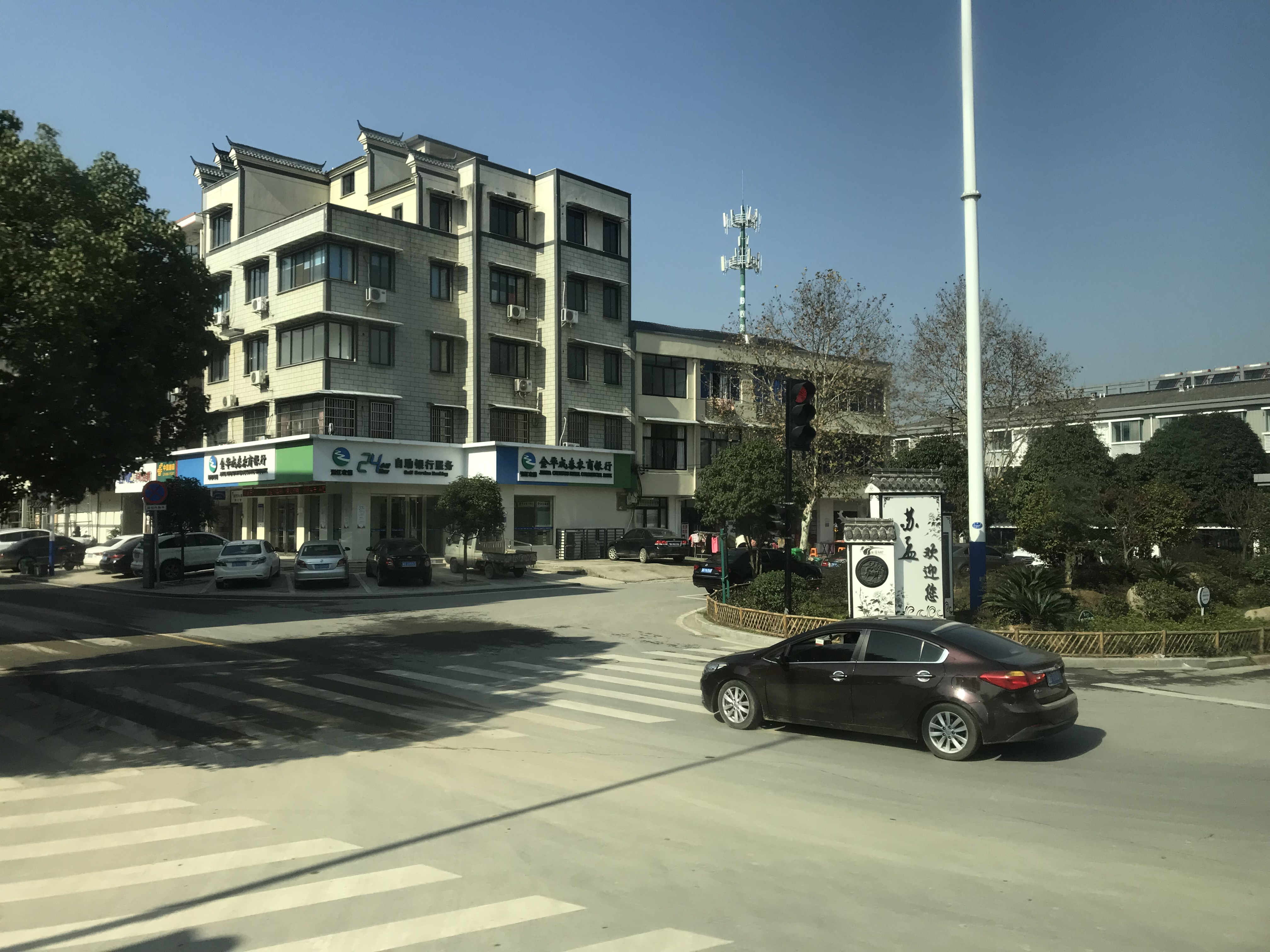 201812 Welcome sign of Sumeng Township